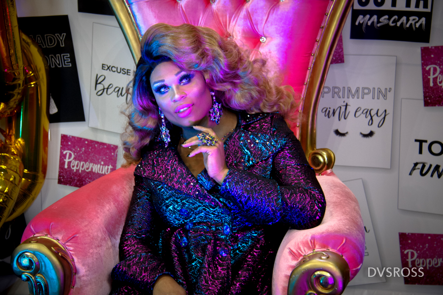 Peppermint at RuPaul's DragCon LA 2018